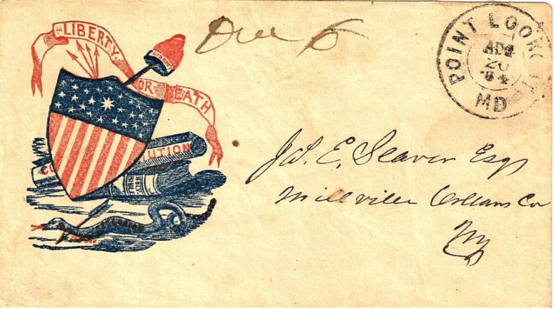 Patriotic cover with hand-stamp, and 'Due 6' manuscript